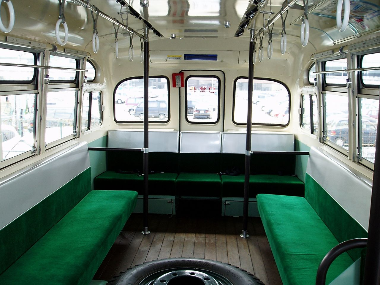 Inside of Kobe City Bus "Kobekko II" Isuzu U-FTR32FB at Chuo Branch This picture is obtaining and photoing permission of the persons concerned.